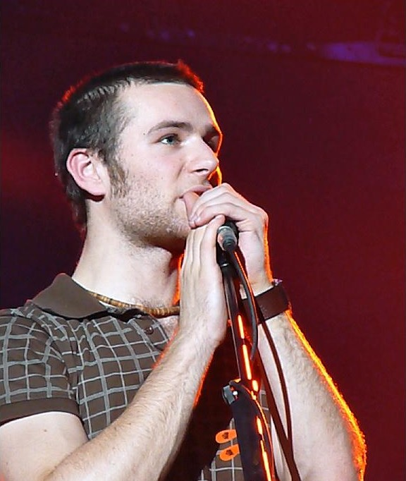 Harry Judd of McFly